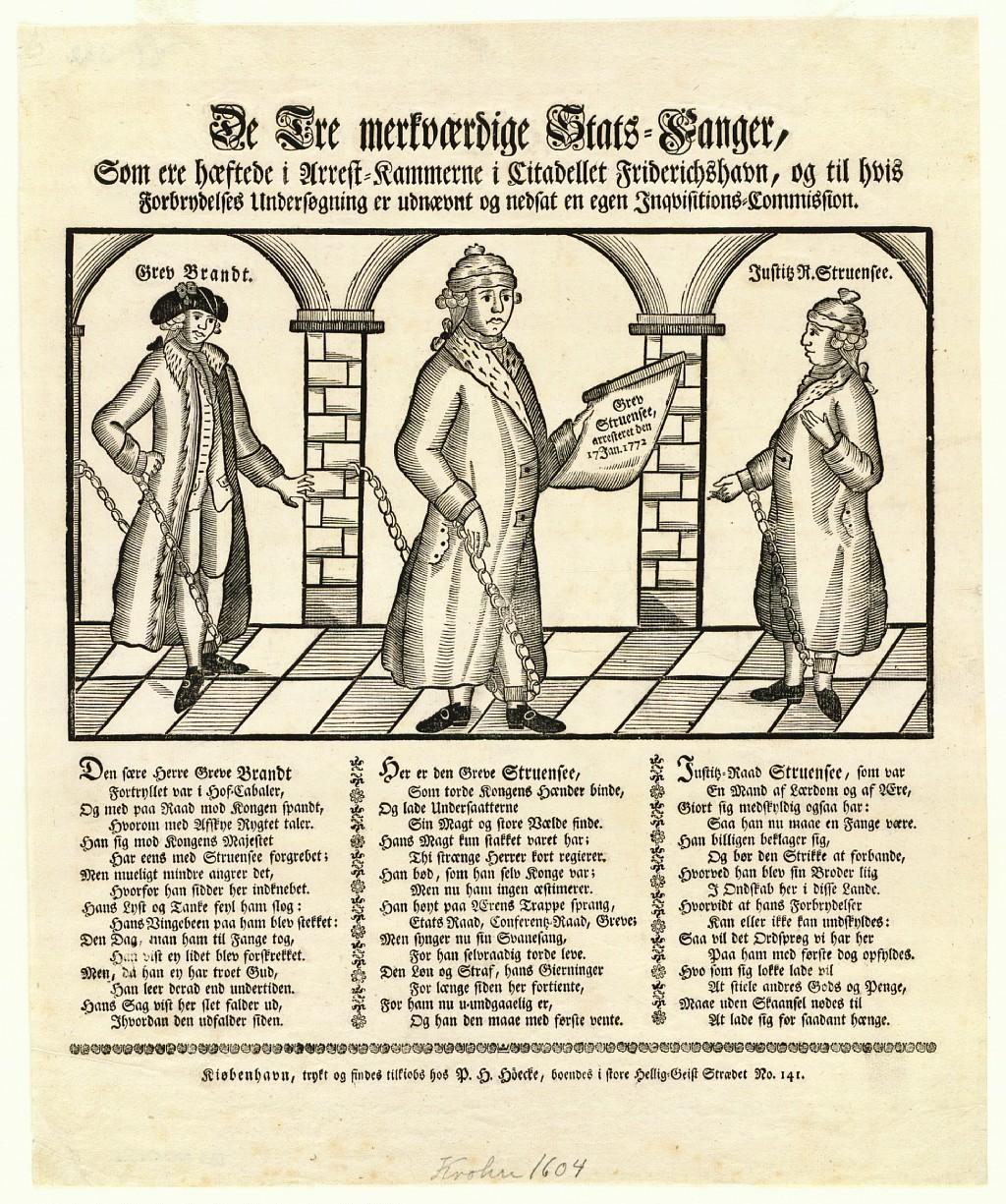 Satirical paper on Enevold Brandt, Johann Friedrich Struensee and Carl August Struensee